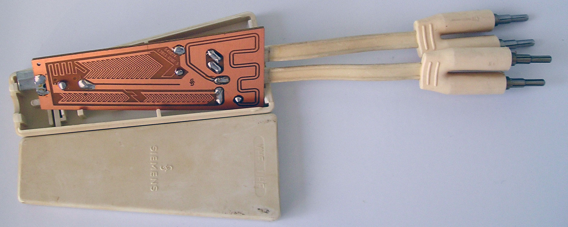 Adapter - splitting coax antenna signal (60 Ohm) to UHF (240 Ohm) and VHF III (240 Ohm). Brand: Siemens.